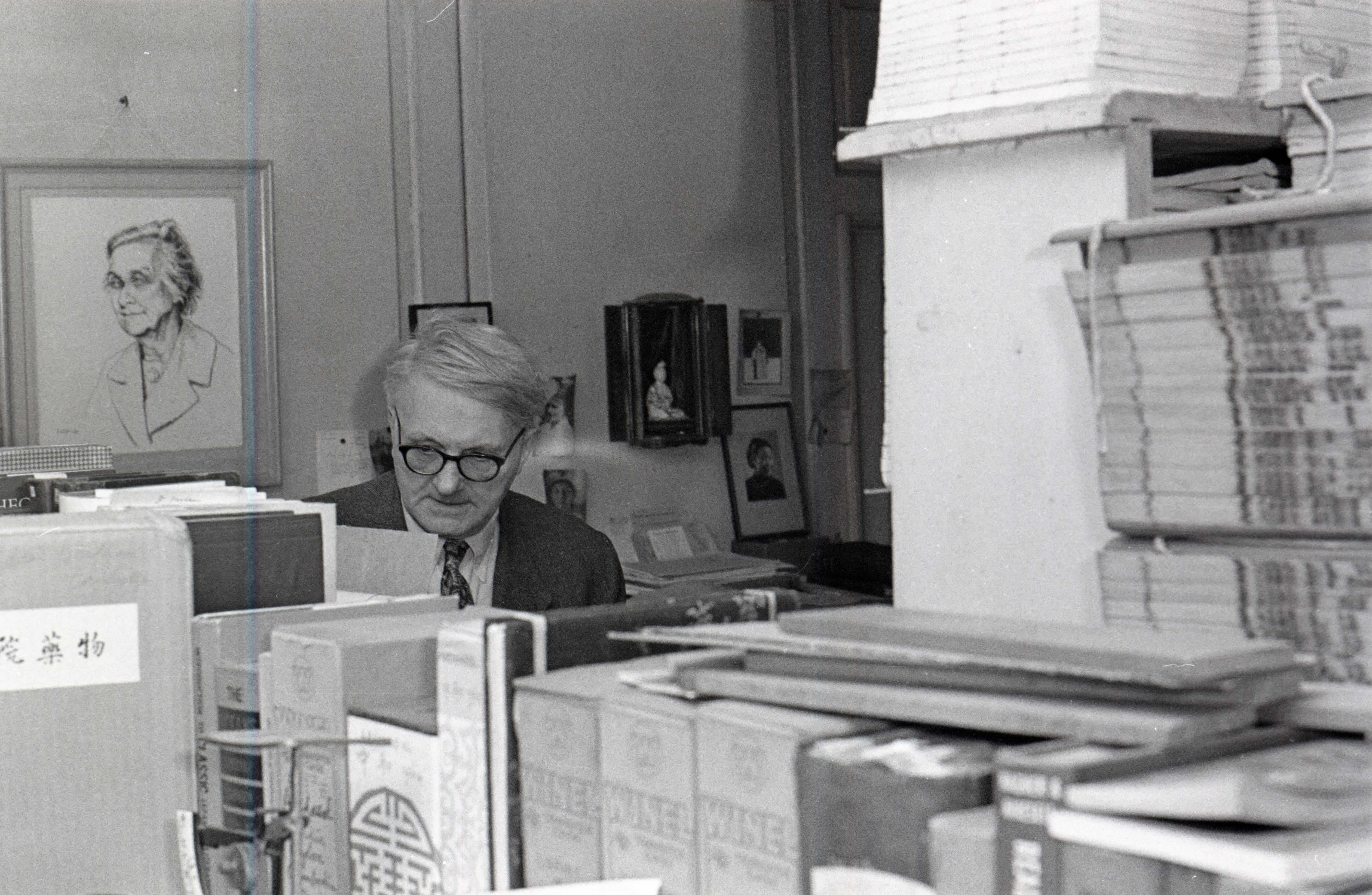 Joseph Needham in his office in Cauis College Cambridge 1965